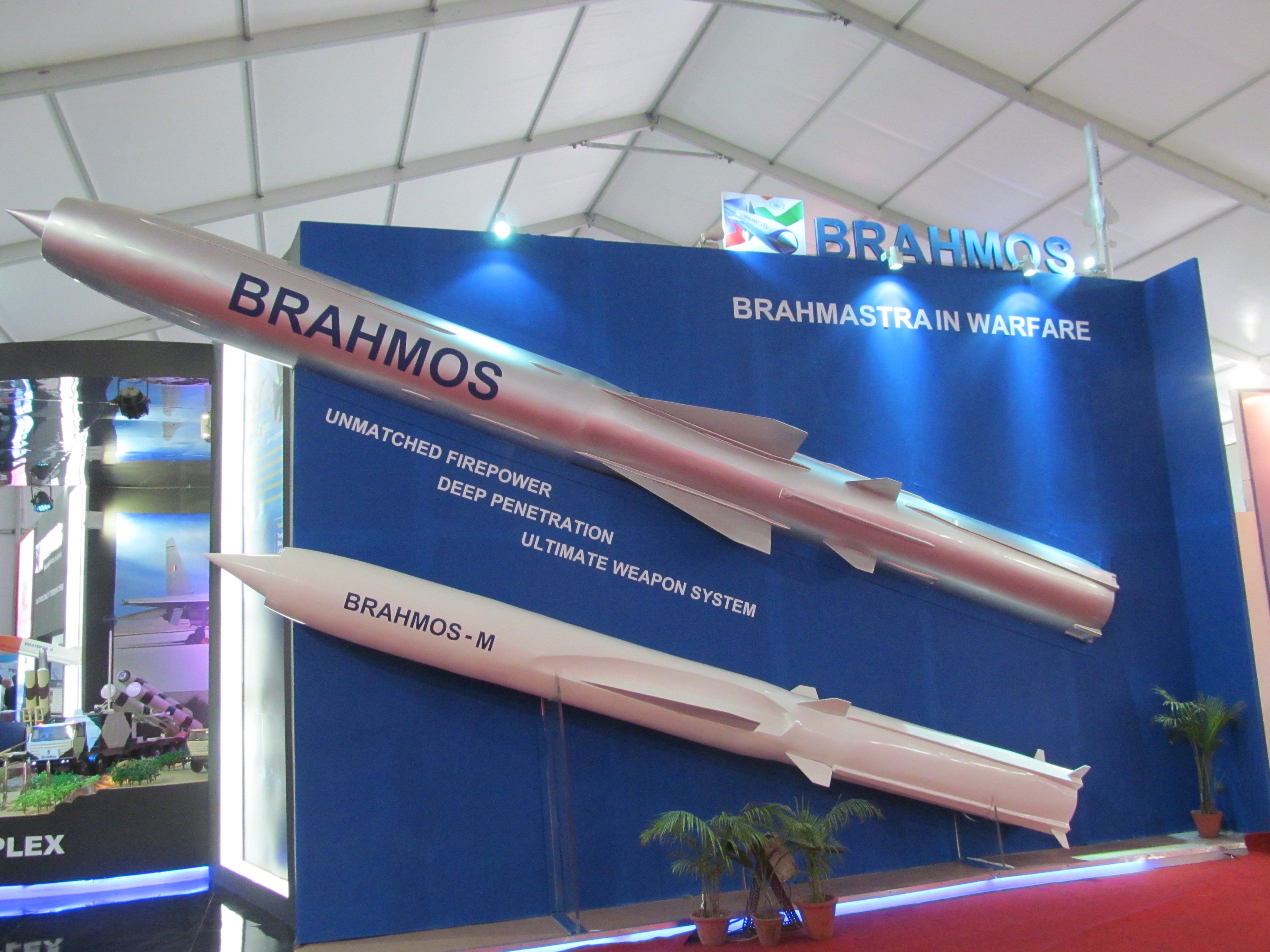 Brahmos and Brahmos-M size comparison, at Def Expo 2014.